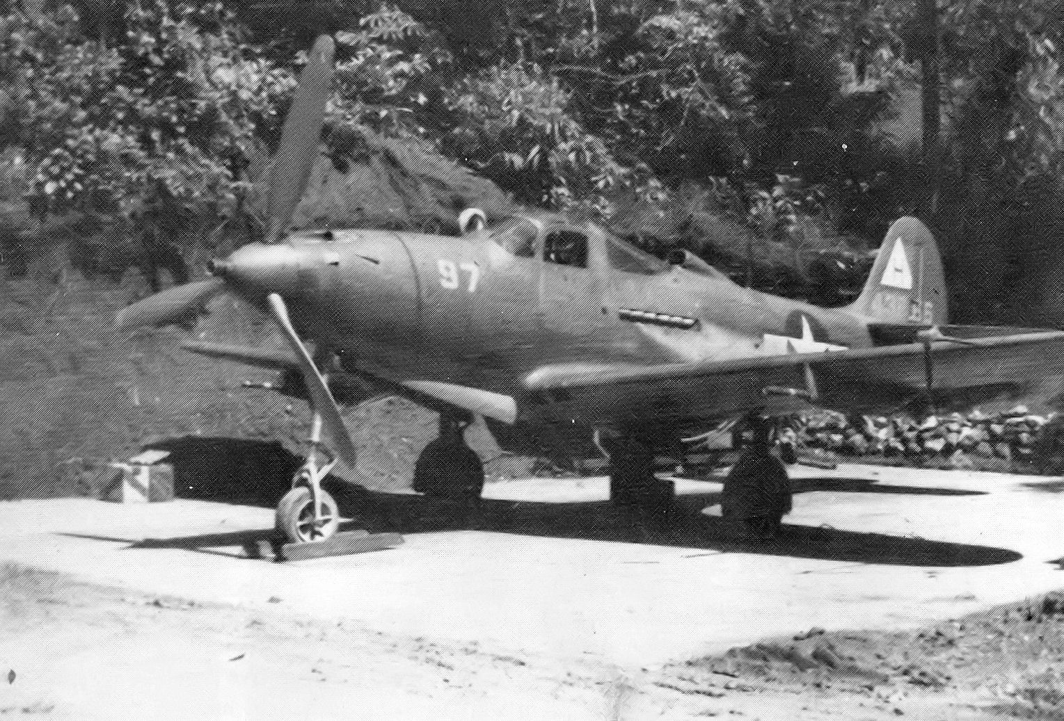 28th Fighter Squadron Bell P-39Q-20-BE Airacobra 44-3866 Noted as Squadron "97", carrying a tail code of "Triangle H", assigned by Sixth Air Force.